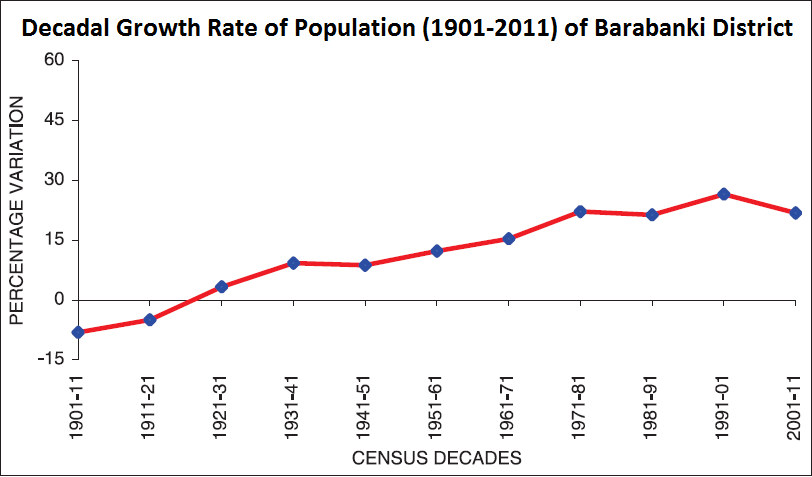 Decadal Growth Rate of Population (1901-2011) of Barabanki District. Data